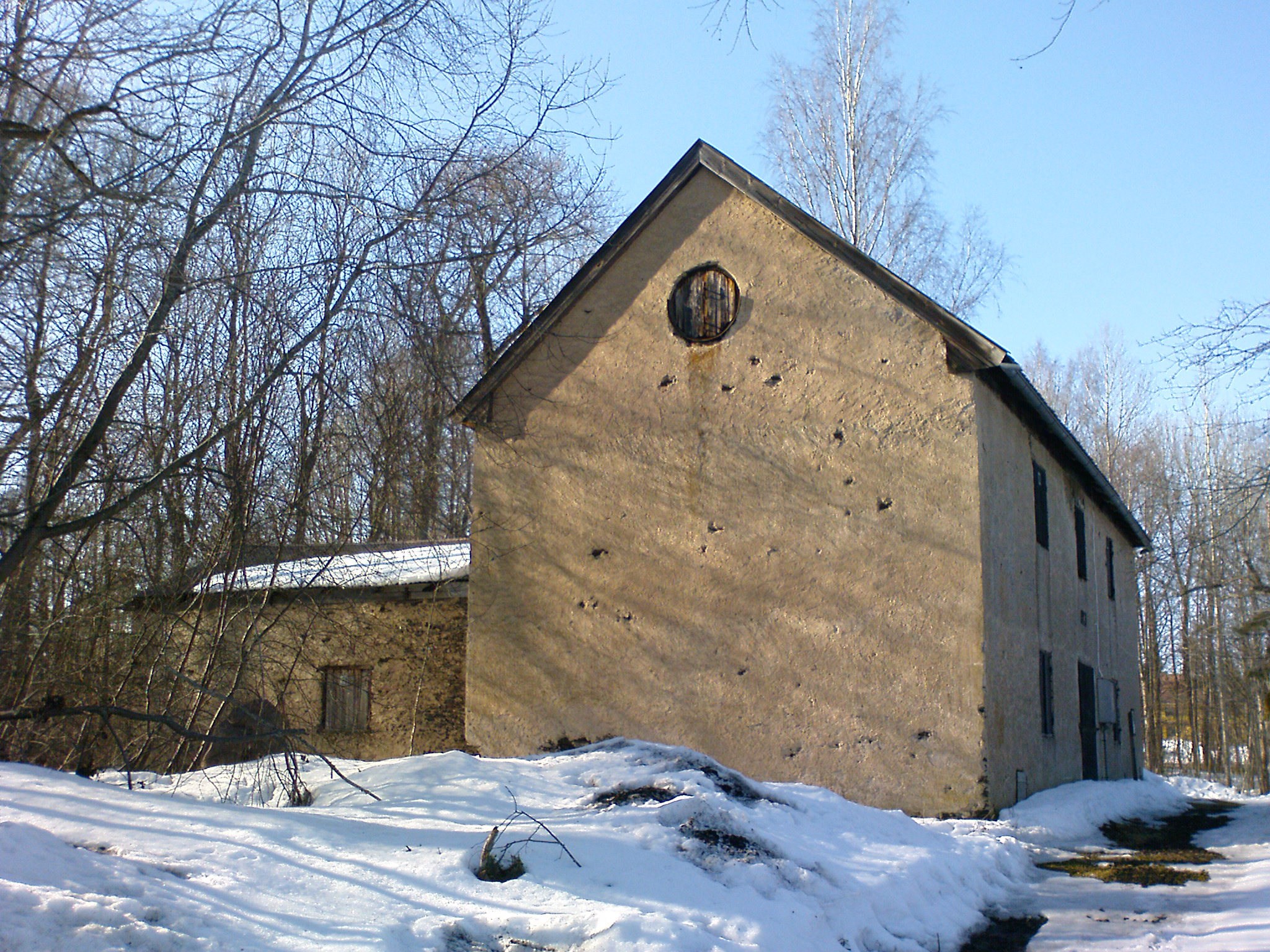 Spirits warehouse in Harnäs. The only building located exactly on the border between Norrland and Svealand.